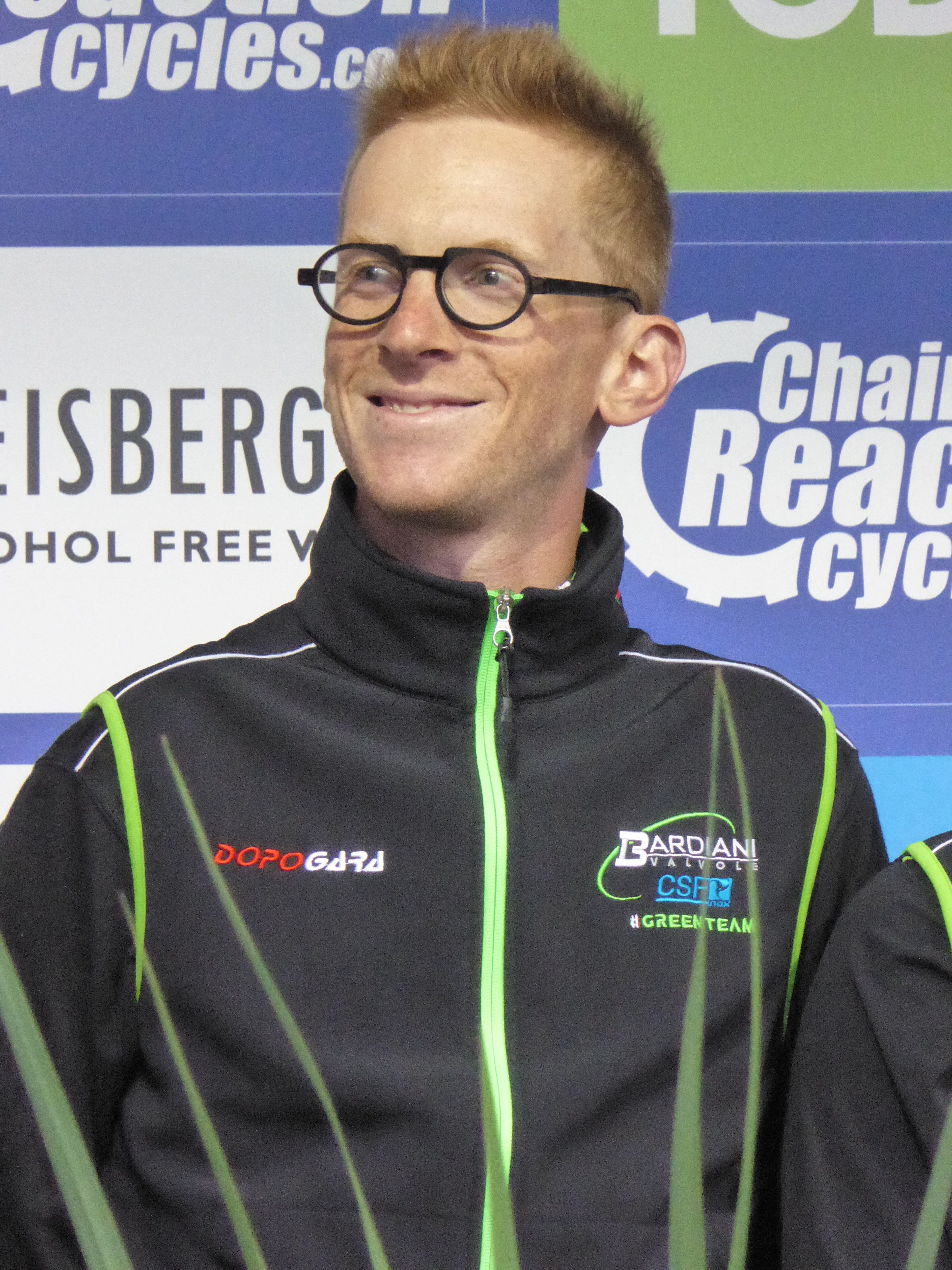 Paolo Simion (Bardiani-CSF), pictured at the 2016 Tour of Britain team presentation in Glasgow on 3 September 2016.